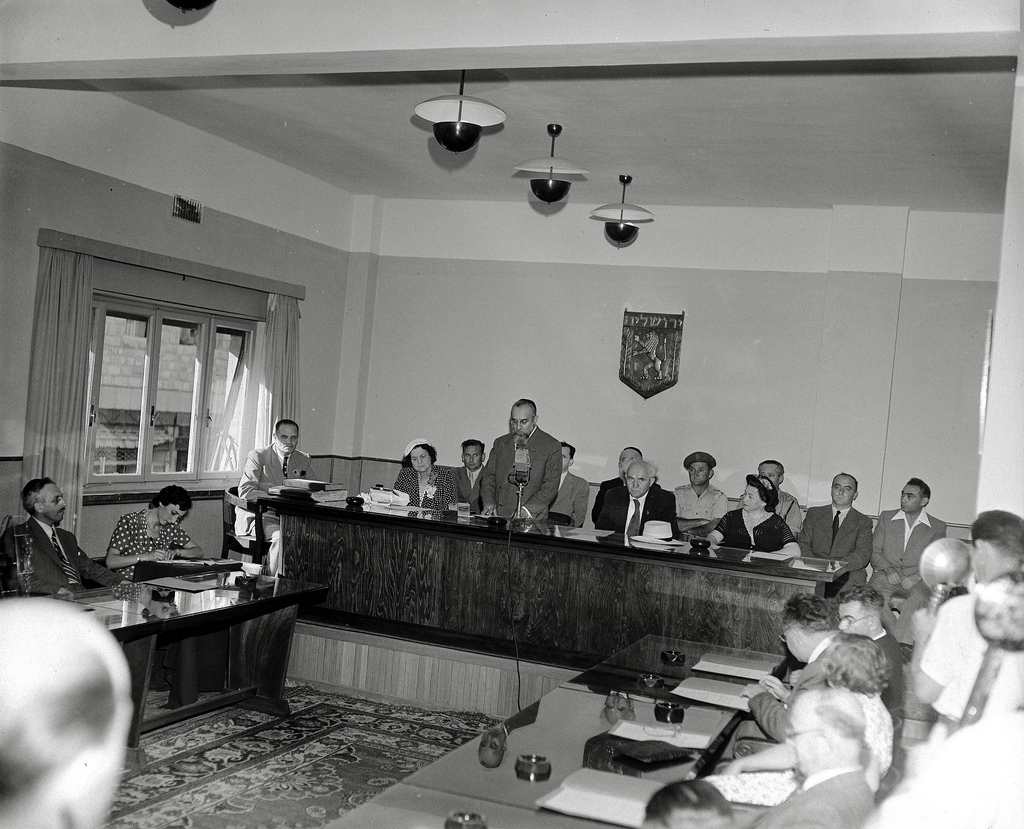 ON HIS RETURN FROM THE U.S. THE FREEDOM OF THE CITY OF JERUSALEM WAS CONFERRED UPON THE PM DAVID BEN GURION. MR. SHRAGAI MAYOR OF JERUSALEM READS THE SCROLL. Photograp: GPO. 12/06/1951